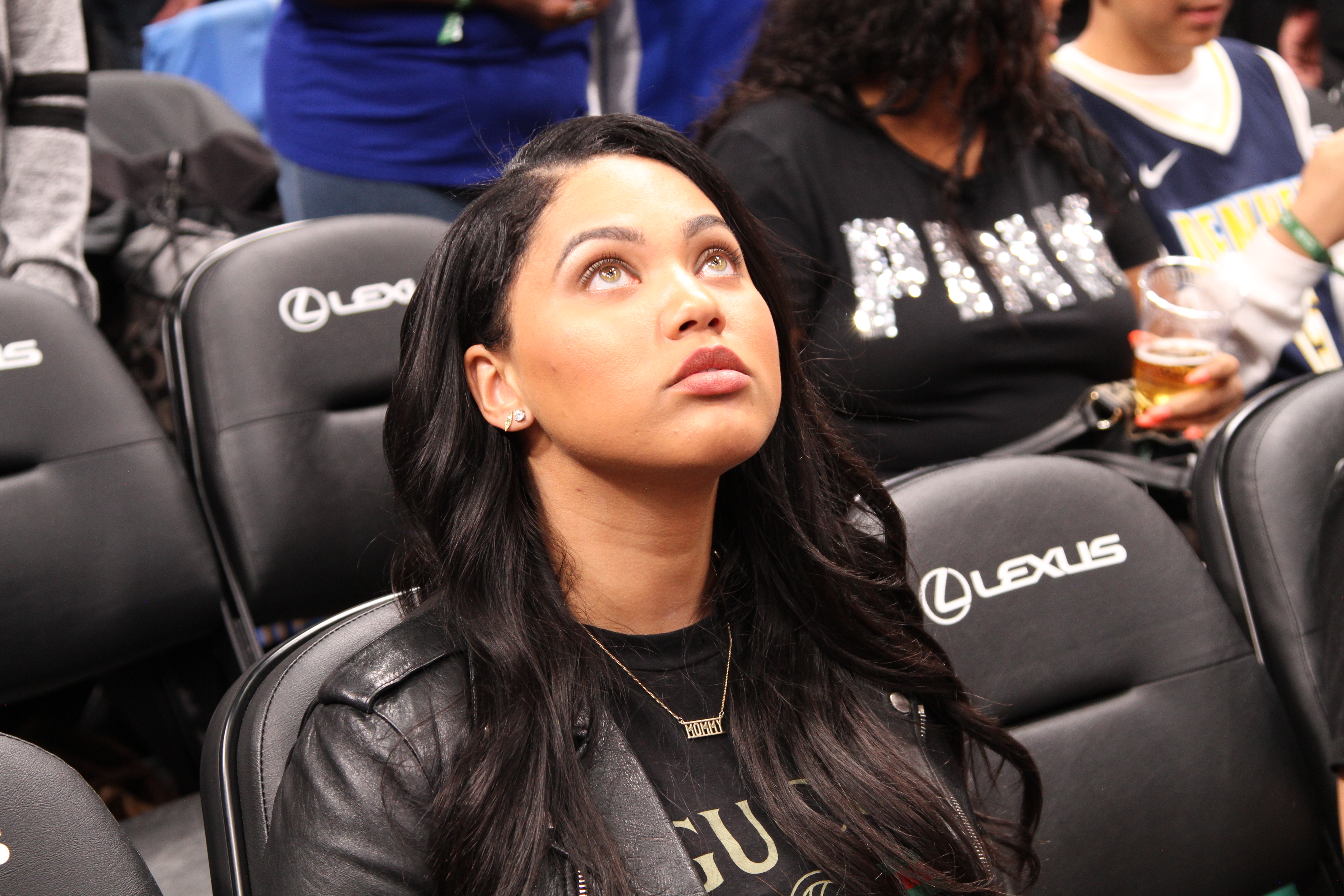 Ayesha Curry watches her husband Stephen Curry practicing prior to the start of a game in Denver, Colorado.